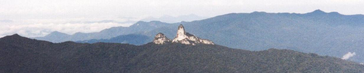 Batu Lawi, seen from the peak of Gunung Murud, Sarawak, Borneo on 4 September 1998. Photo by Mike Shanahan